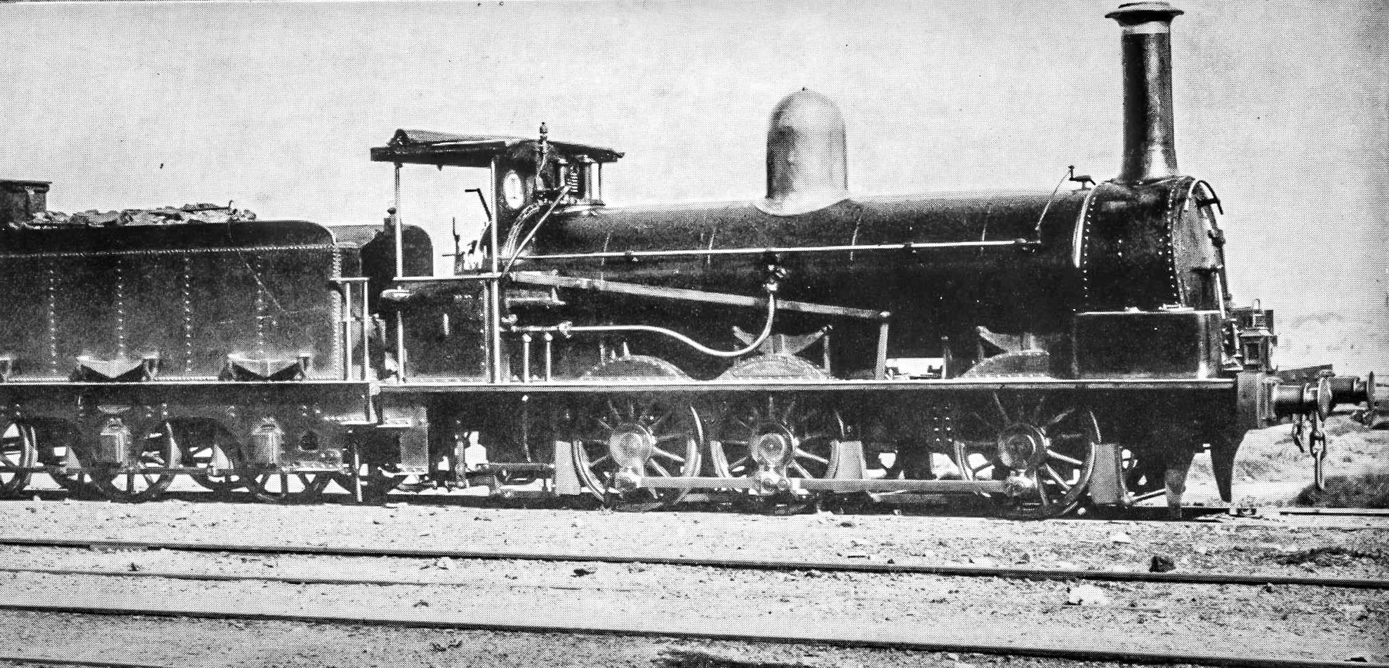 NSWGR Class Z19 Locomotive